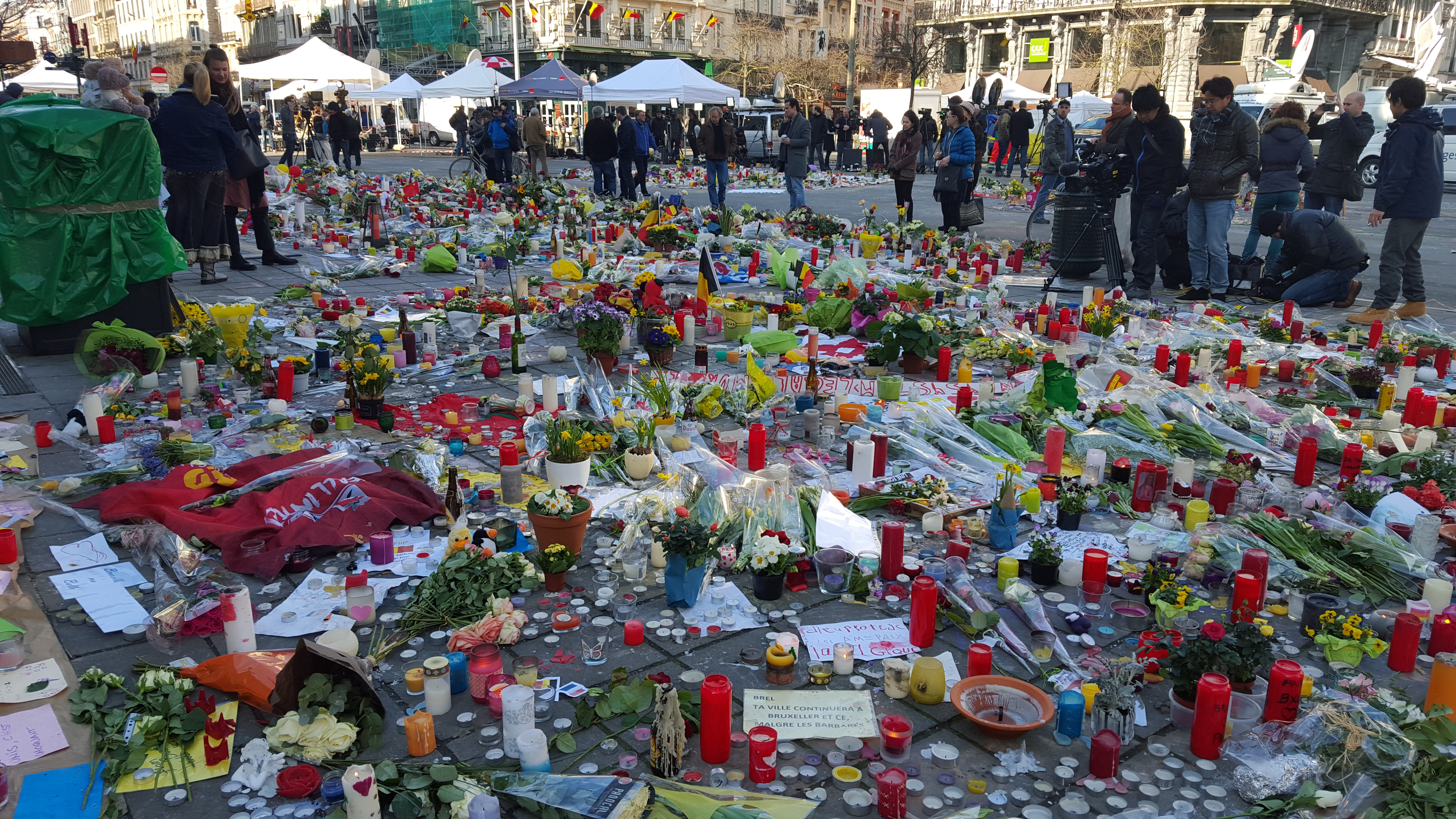 Bourse, Brussels after terrorist attacks in March 2016